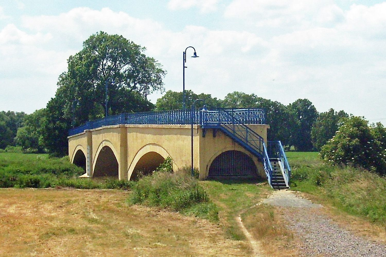 Bridge over the Mulde river at Canitz (Thallwitz, Leipzig district, Saxony)